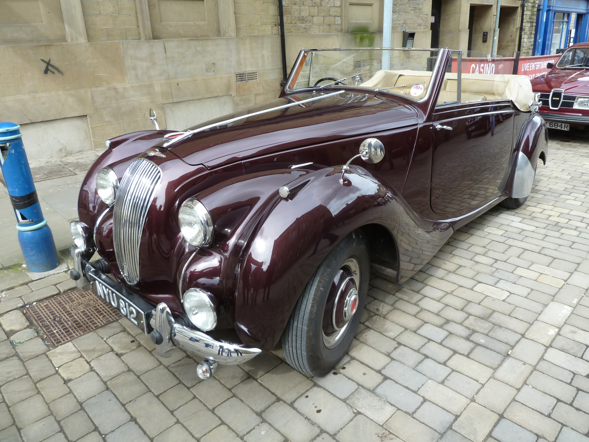 1953 Lagonda 2.6-litre 4 seater drophead coupé by Tickford